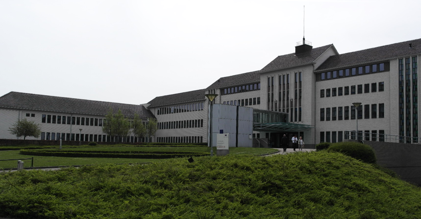 Maastricht, the Netherlands. View of the courts of justice, housed in the former Sint-Annadal hospital buildings in the Maastricht-West neighbourhood of Brusselsepoort.